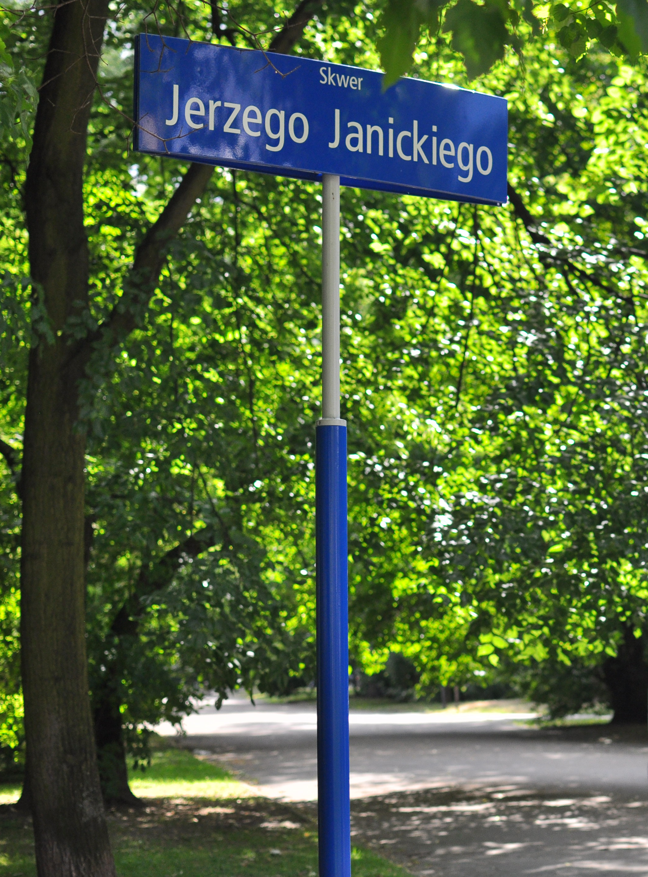 My own picture